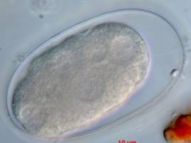 Gastrointestinal parasites in seven primates of the Taï National Park - Helminths Figure 3e of paper. Egg of Oesophagostomum sp.